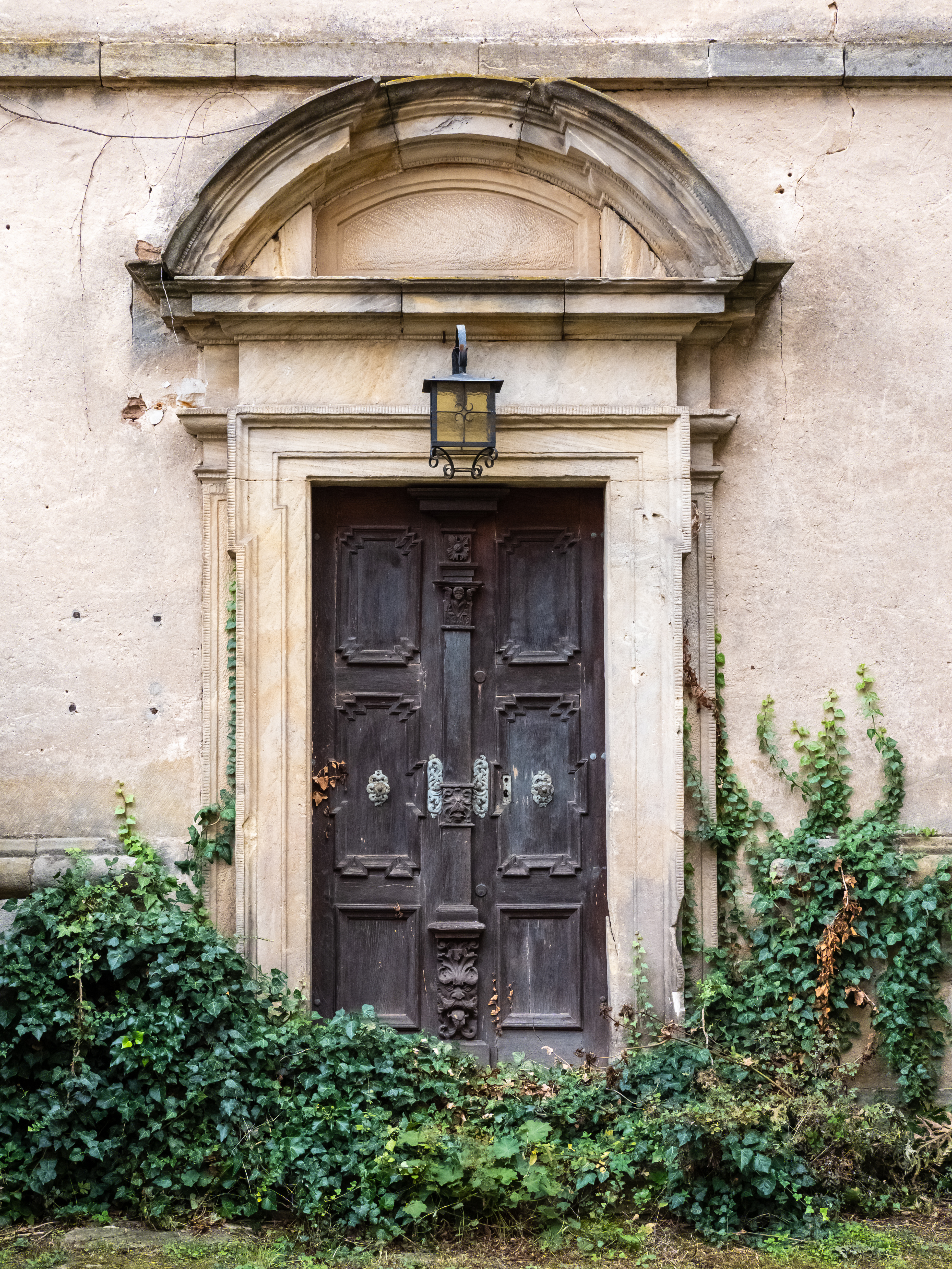 Door at Gereuth Castle